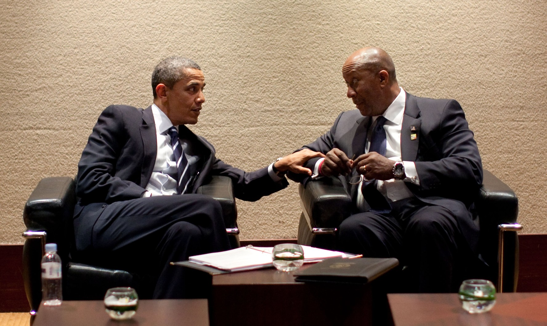 President Barack Obama talks with U.S. Trade Representative Ambassador Ron Kirk before bilateral meetings at the Grand Hyatt Hotel in Seoul, South Korea, Nov. 11, 2010. (Official White House Photo by Pete Souza) This official White House photograph is in the public domain from a copyright perspective, so while restrictions such as personality or privacy rights may apply, in general, manipulations are allowed.